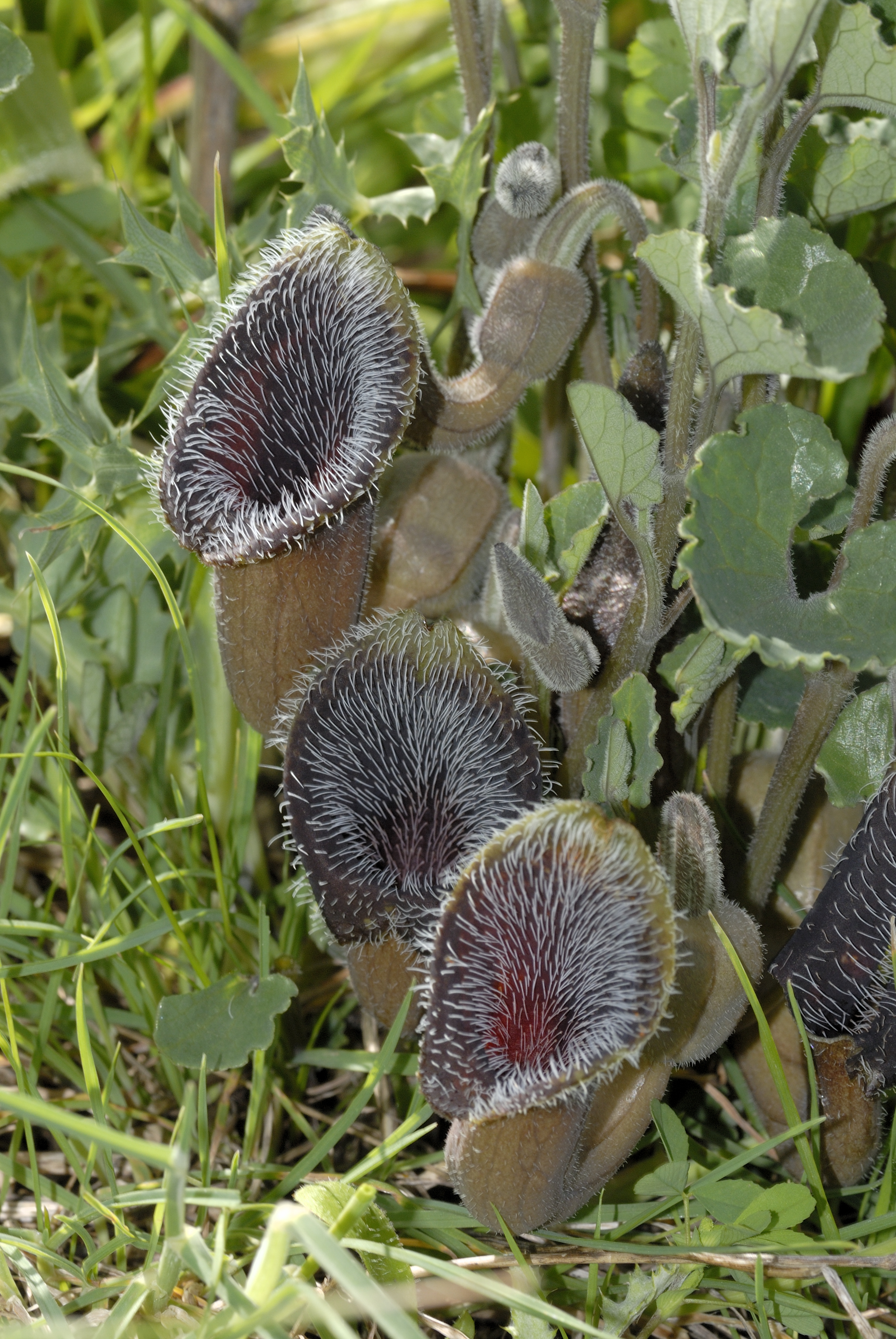 Aristolochia cretica Lam. (1783) Kato Saktouria/Crete